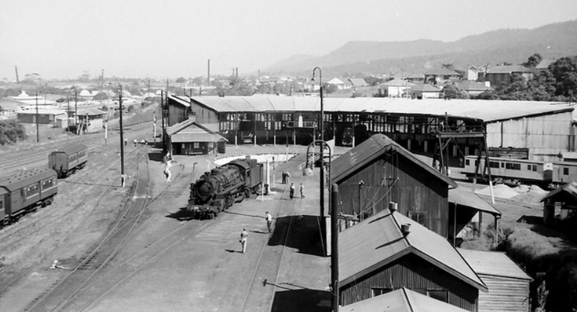 Thirroul Locomotive Depot showing the roundhouse (now demolished)